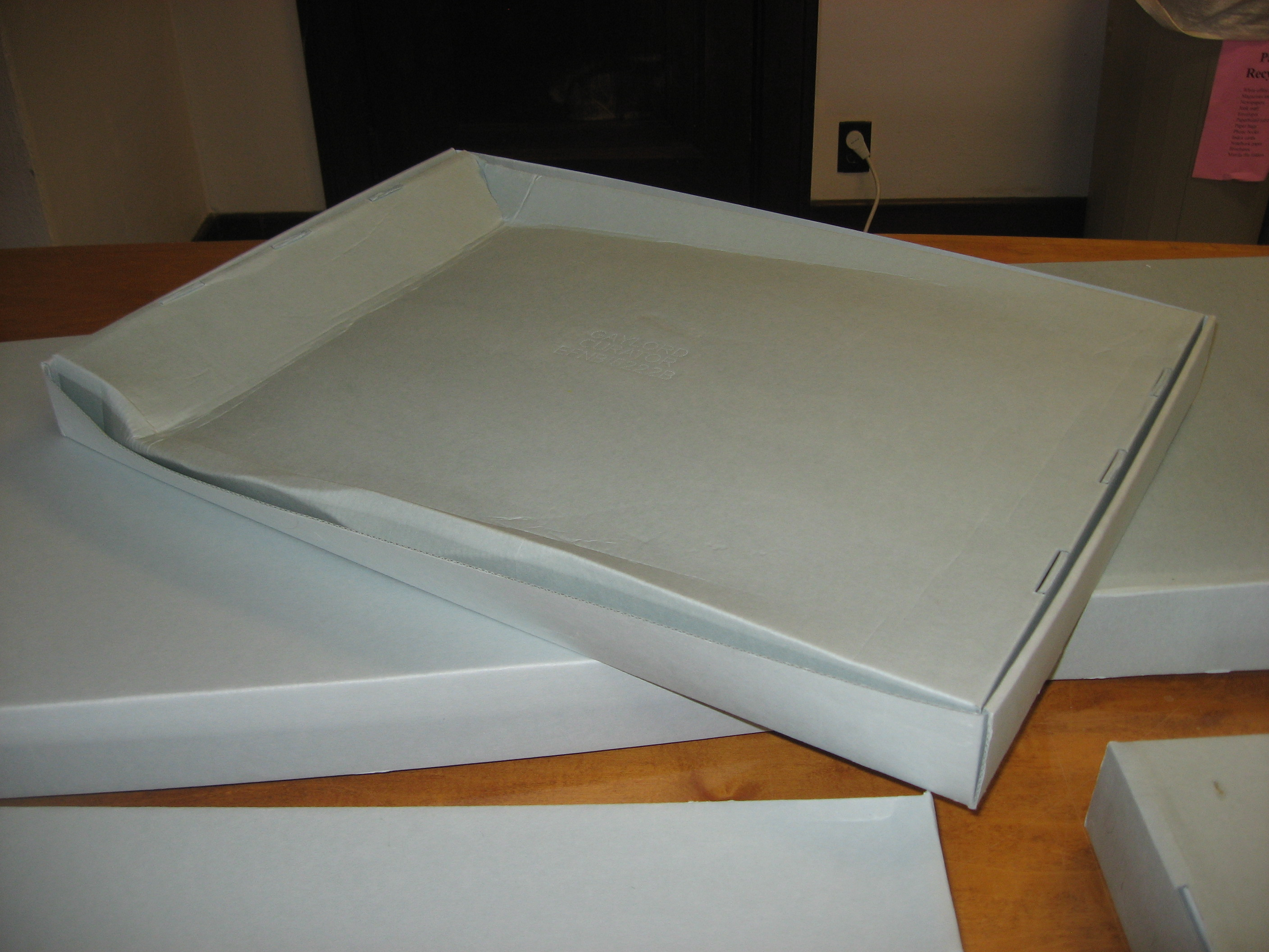 Underside of an acid-free box designed for holding newspapers. After being partially filled with newspapers, it was placed on top of a somewhat smaller box, and other boxes like this one were placed on top of it. The newspapers in this one were insufficient to support the shape of the box, so the portions not resting on top of the box below it gradually collapsed through a process known as creep. Picture taken at an Indiana University Bloomington building.